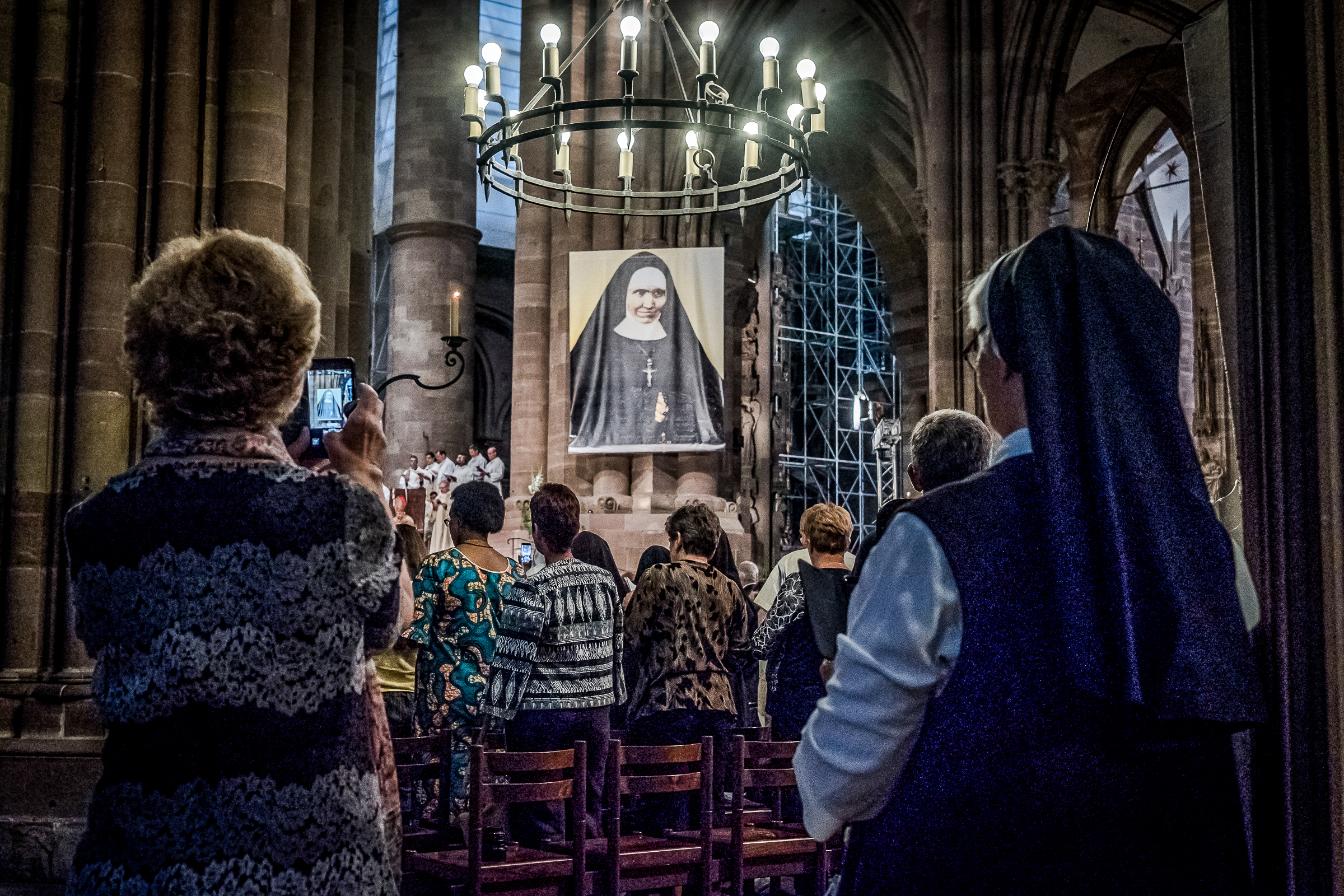 Beatification Mass held in Notre-Dame de Strasbourg on 9 September 2018.